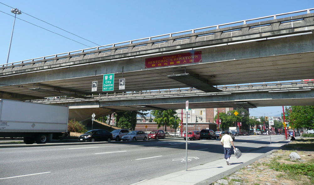 Georgia and Dunsmuir Viaducts at Main Street, to the south of Vancouver's Chinatown. Note "Welcome to Historic Chinatown" signage on the viaduct.